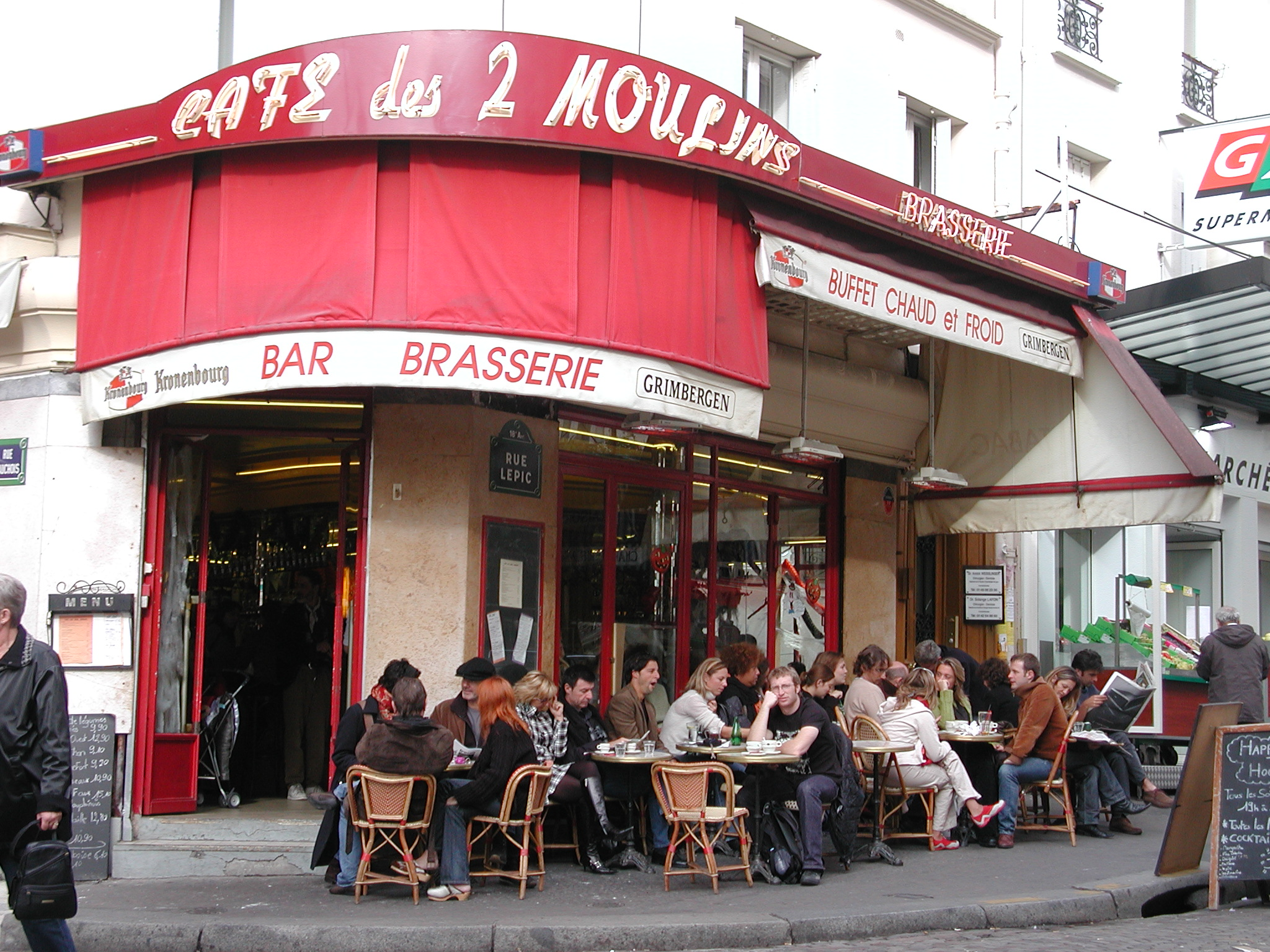 Café des 2 Moulins, Paris. Image created by Jeremy Pearson